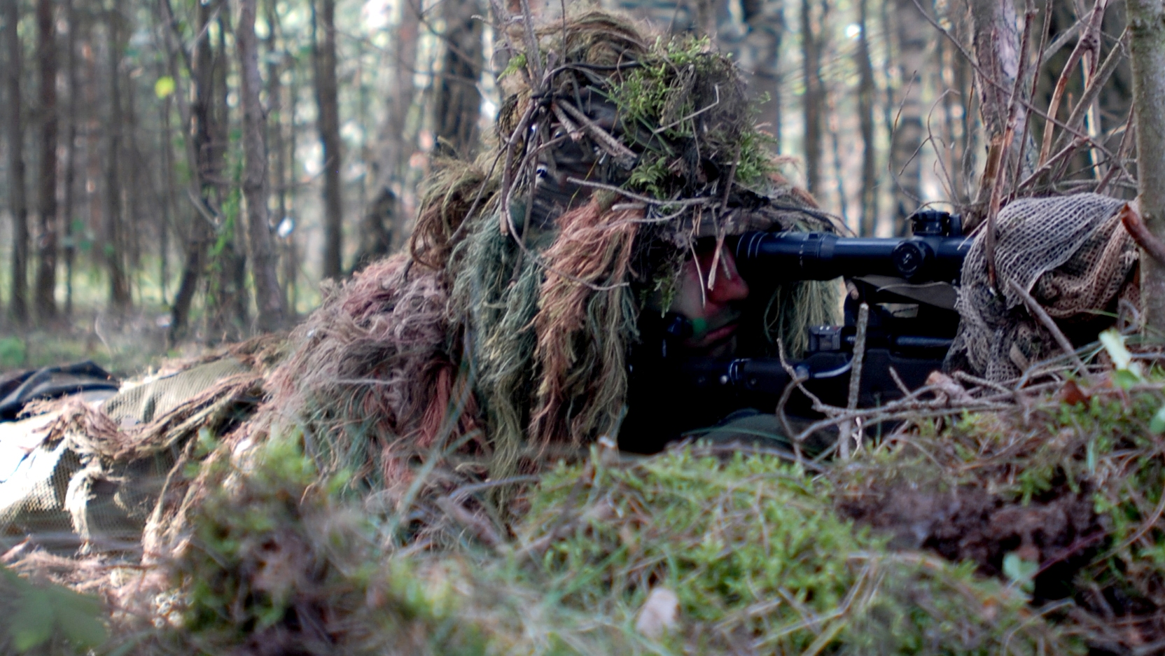 A German Special Forces soldier lines his sights on a target 500 meters away, and awaits direction from an International Special Training Centre instructor to engage the target. The German soldier was one of 10 troops from four different countries attending the sniper training course offered by the ISTC.